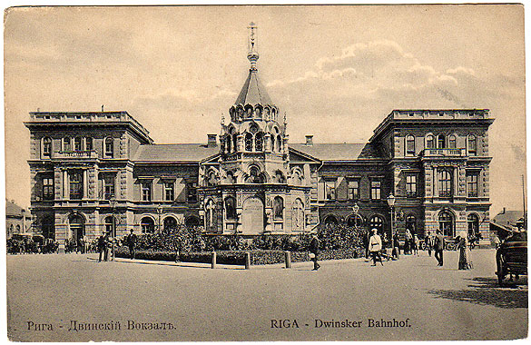 View of Riga Dvinsk (before 1893 – Dinaburg) Station or later called Riga Central Station in Riga, Latvia - at the time a part of the Russian Empire. The building was demolished in the 1950s.